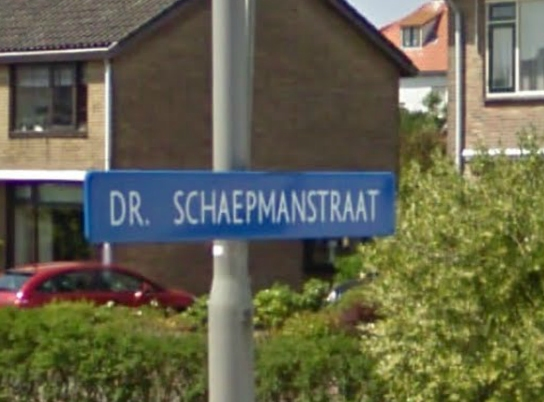 Streetname Dr. Schaepmanstraat